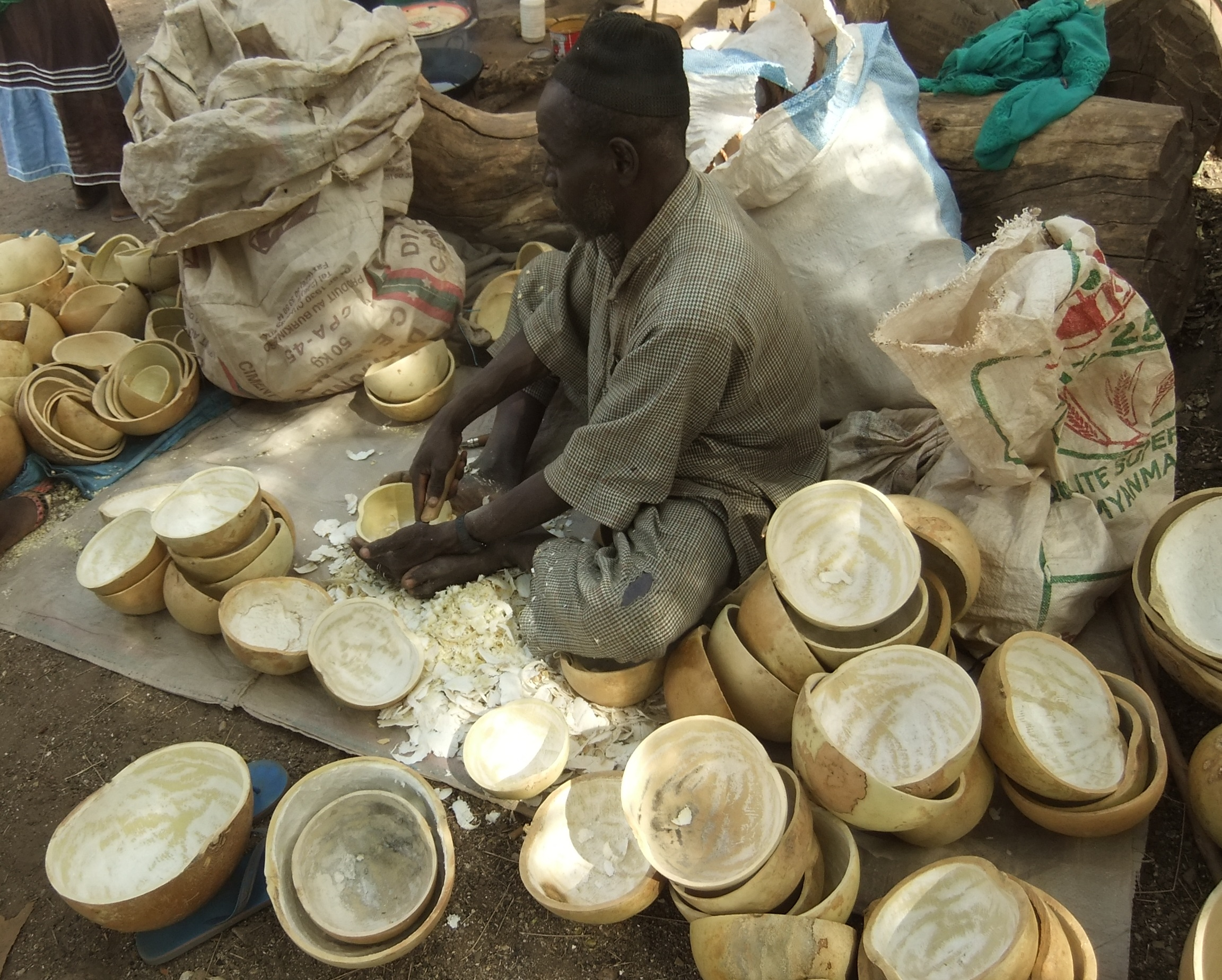 Boromo, Burkina Faso This is an image of "African people at work" from Burkina Faso